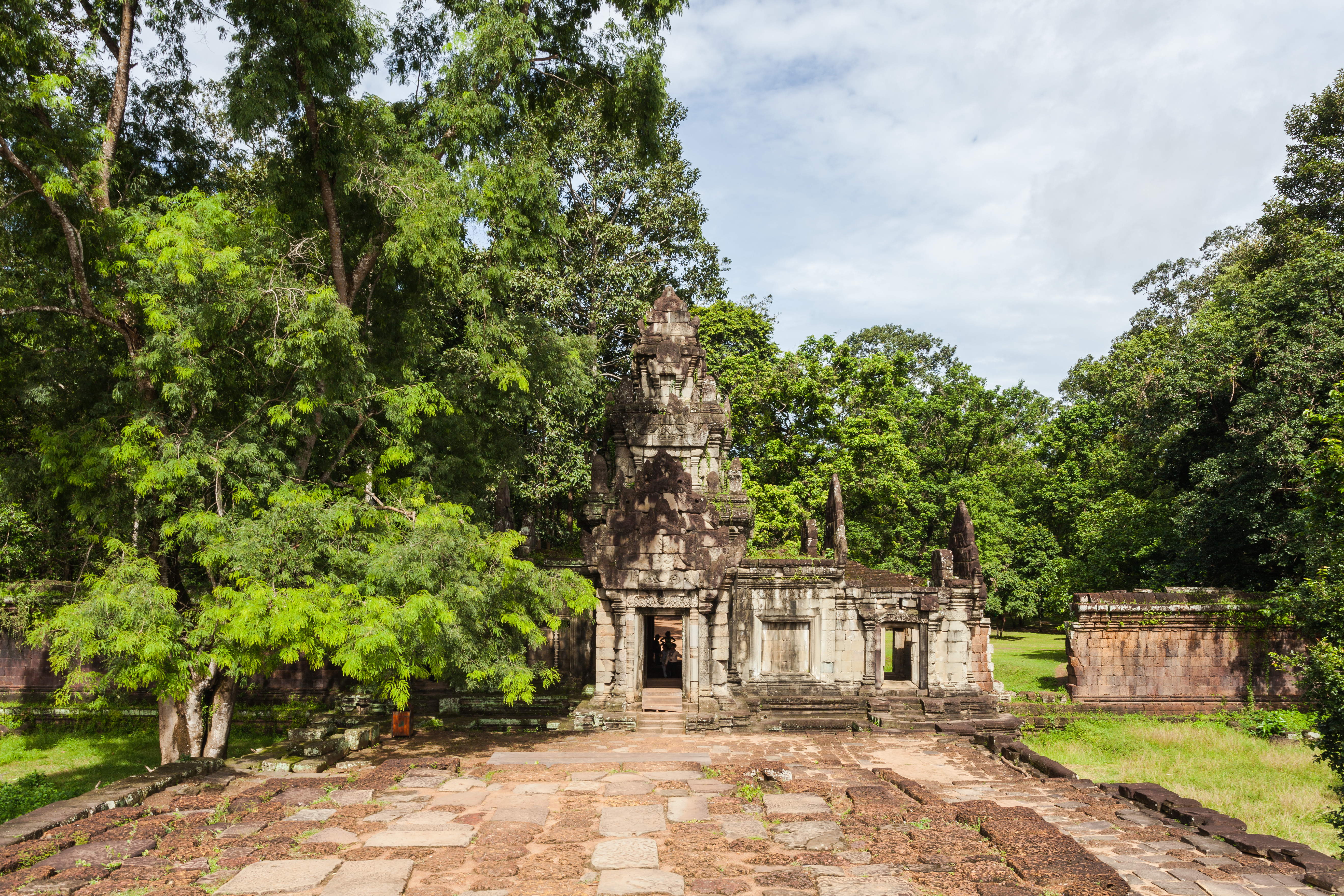 Phimeanakas, Angkor Thom, Cambodia